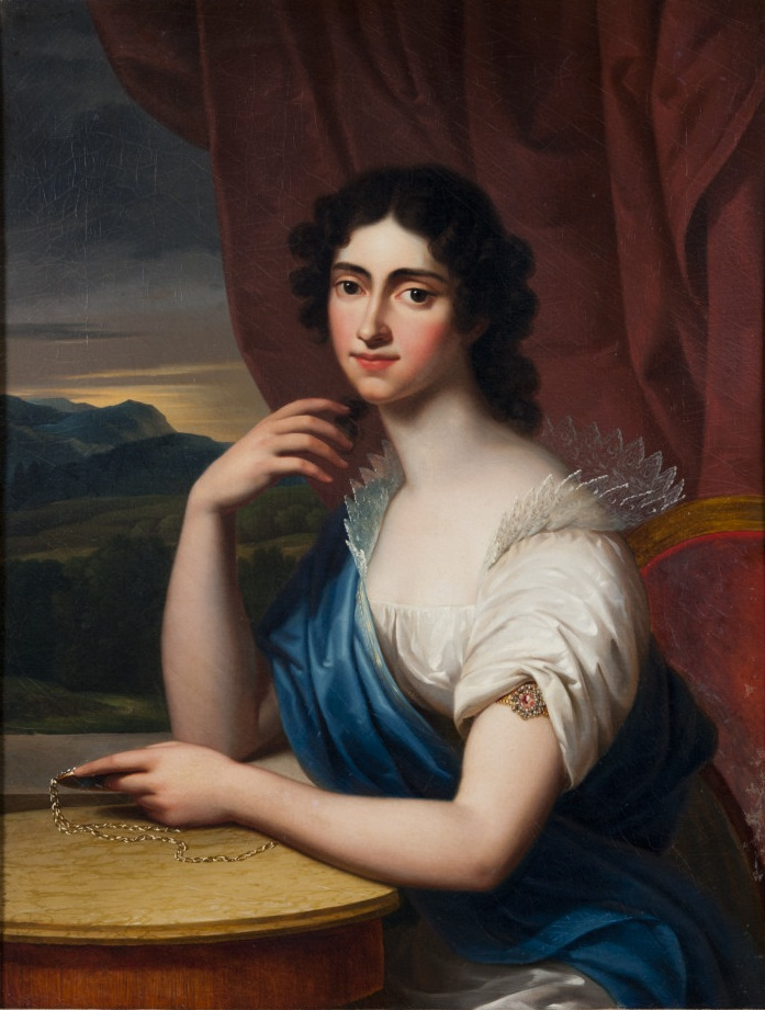 This is a painting showing Maria Cristina of Saxony, Princess of Carignano and mother of King Charles Albert of Sardinia